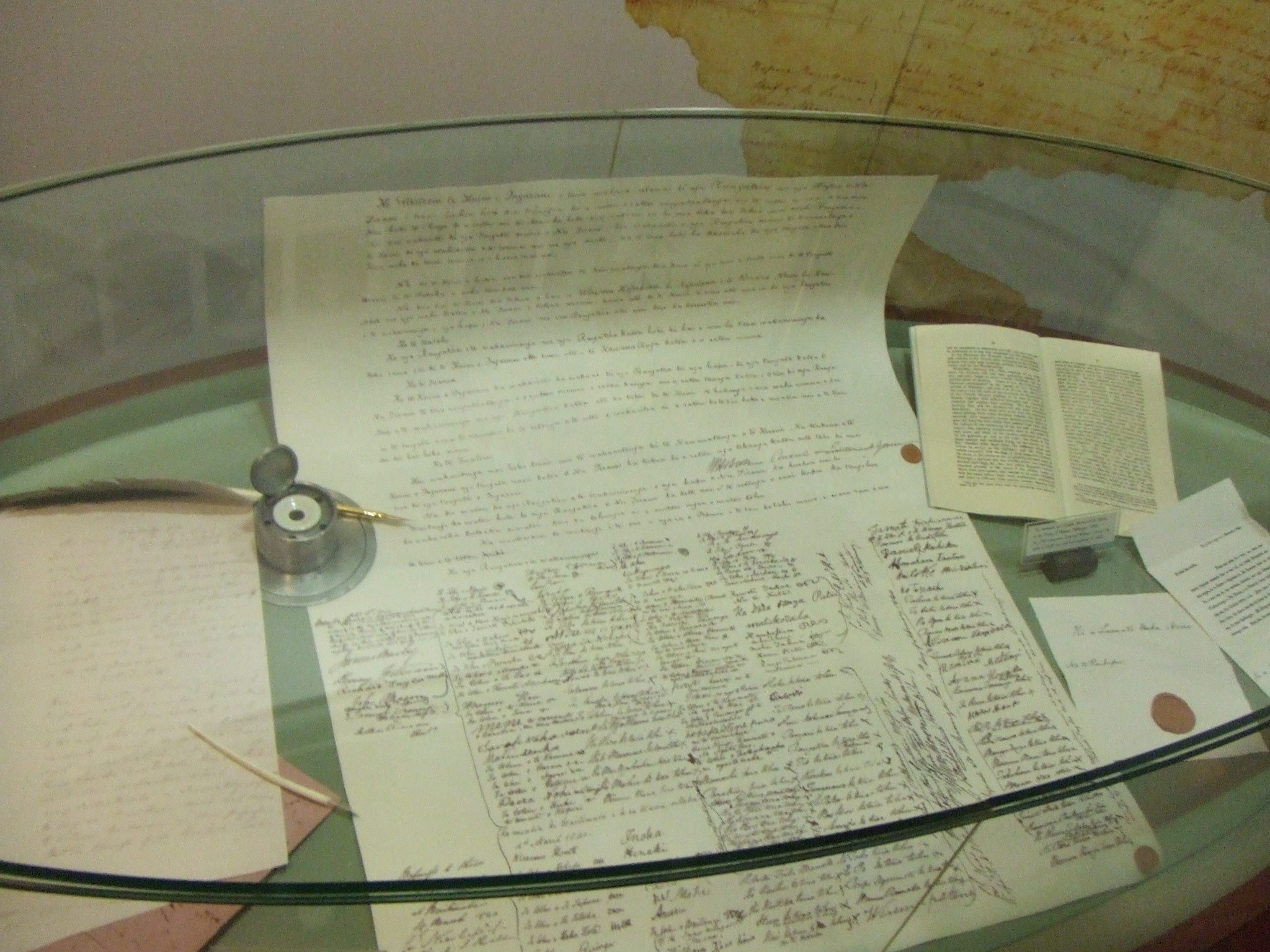 treaty of Waitangi version in the museum on the Waitangi grounds, New Zealand